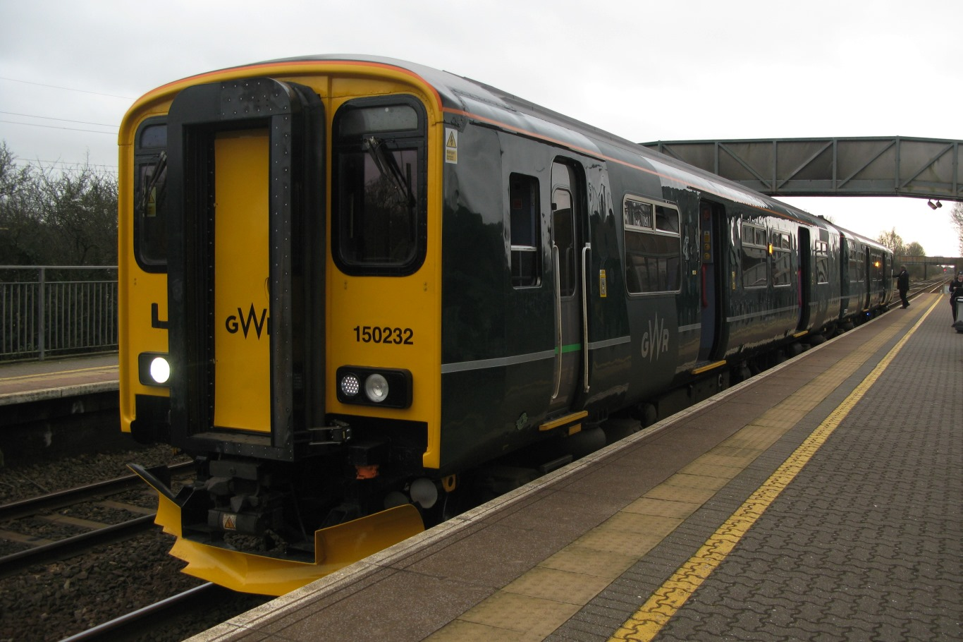 Freshly repainted Great Western Railway unit 150232 calls at Worle while working a Paignton to Cardiff Central service.